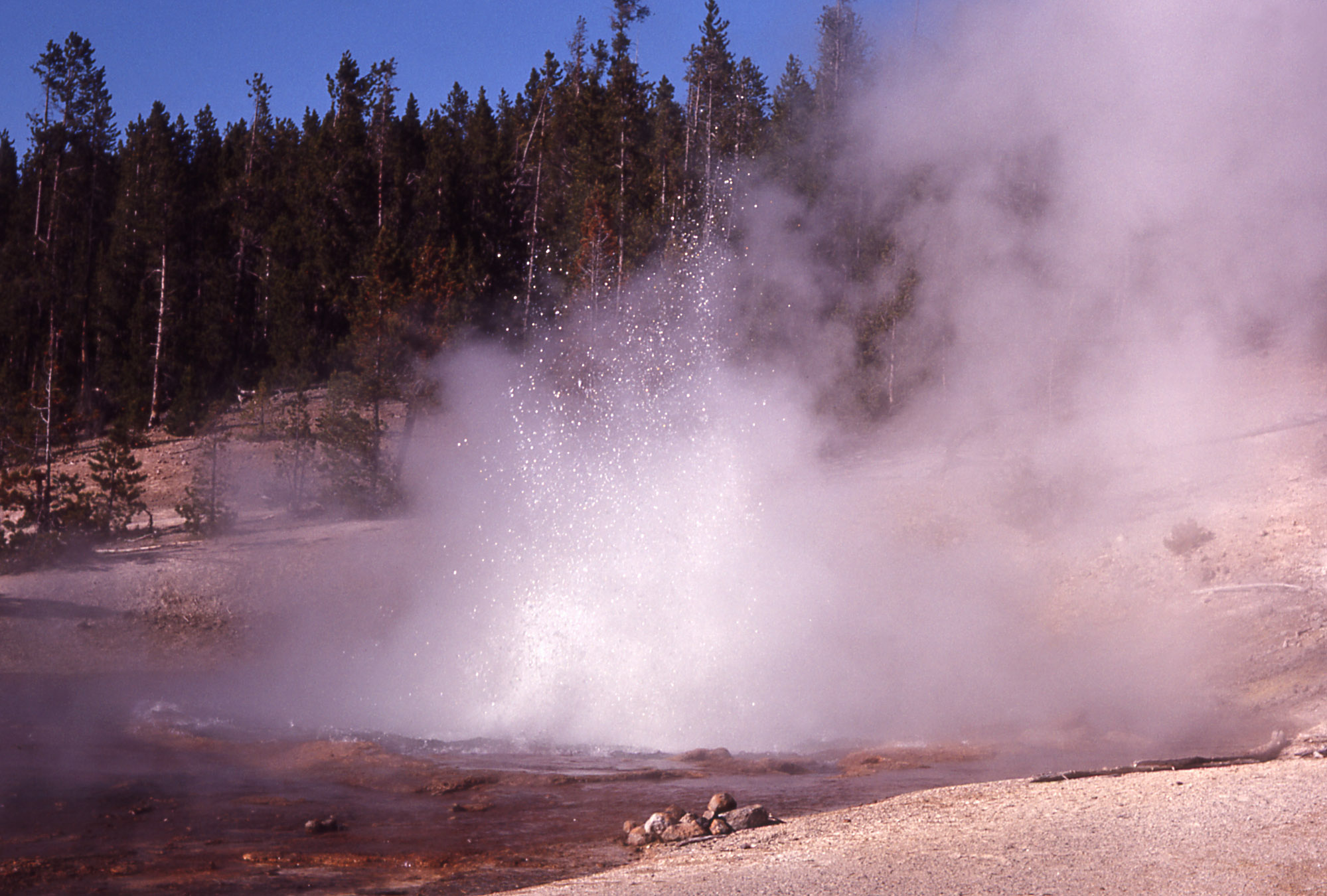 Echnius Geyser, Norris Geyser Basin, Yellowstone National Park, Wyoming